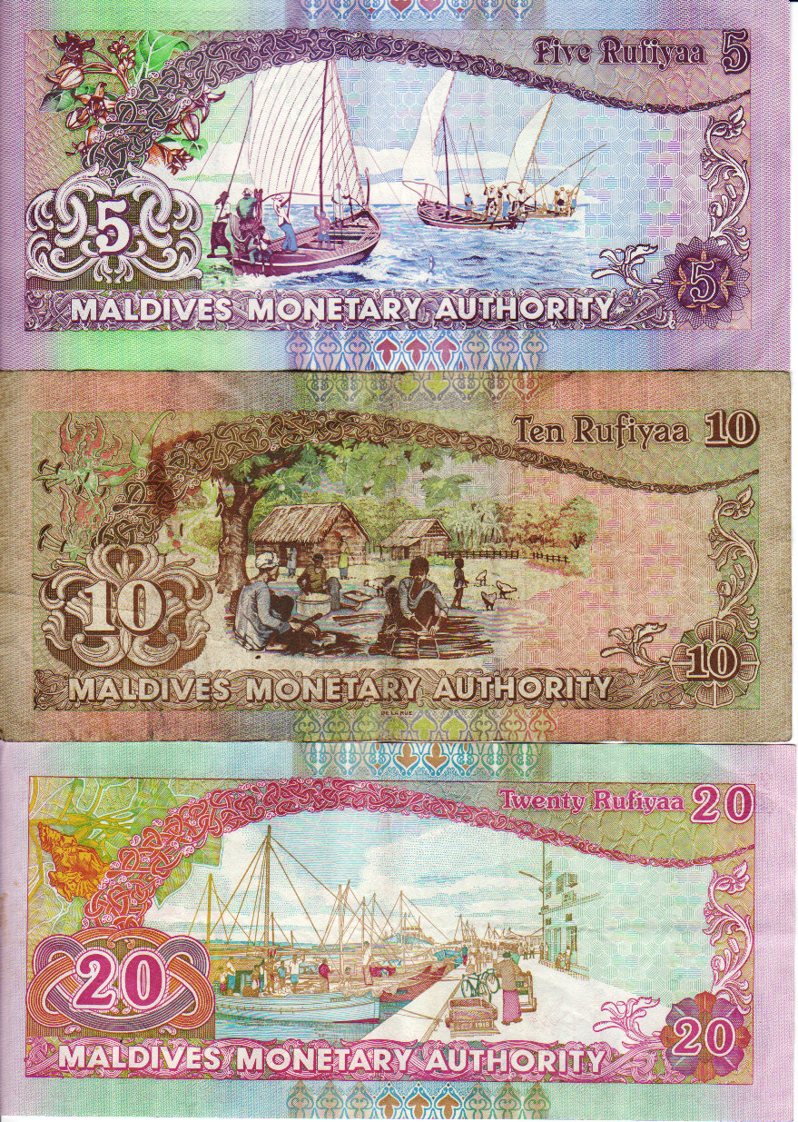 Maldive Islands, bank notes, 5, 10 and 20, reverve scan from own collection